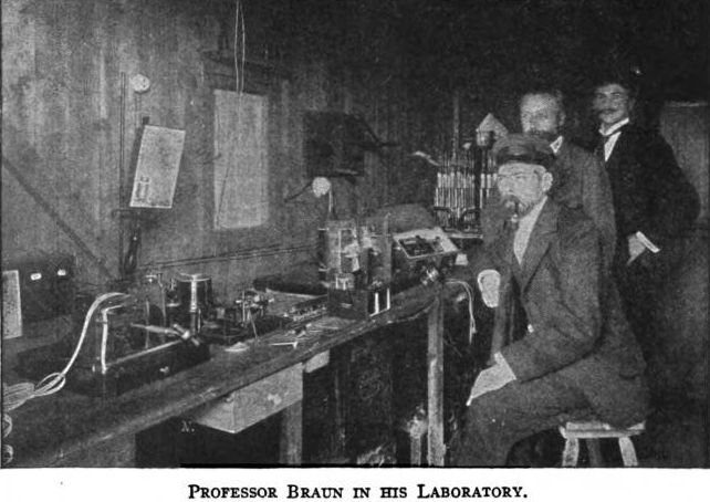 Karl Ferdinand Braun (6 June 1850 in Fulda, Germany – 20 April 1918 in New York City, U.S.) was a German inventor, physicist and Nobel Prize laureate.